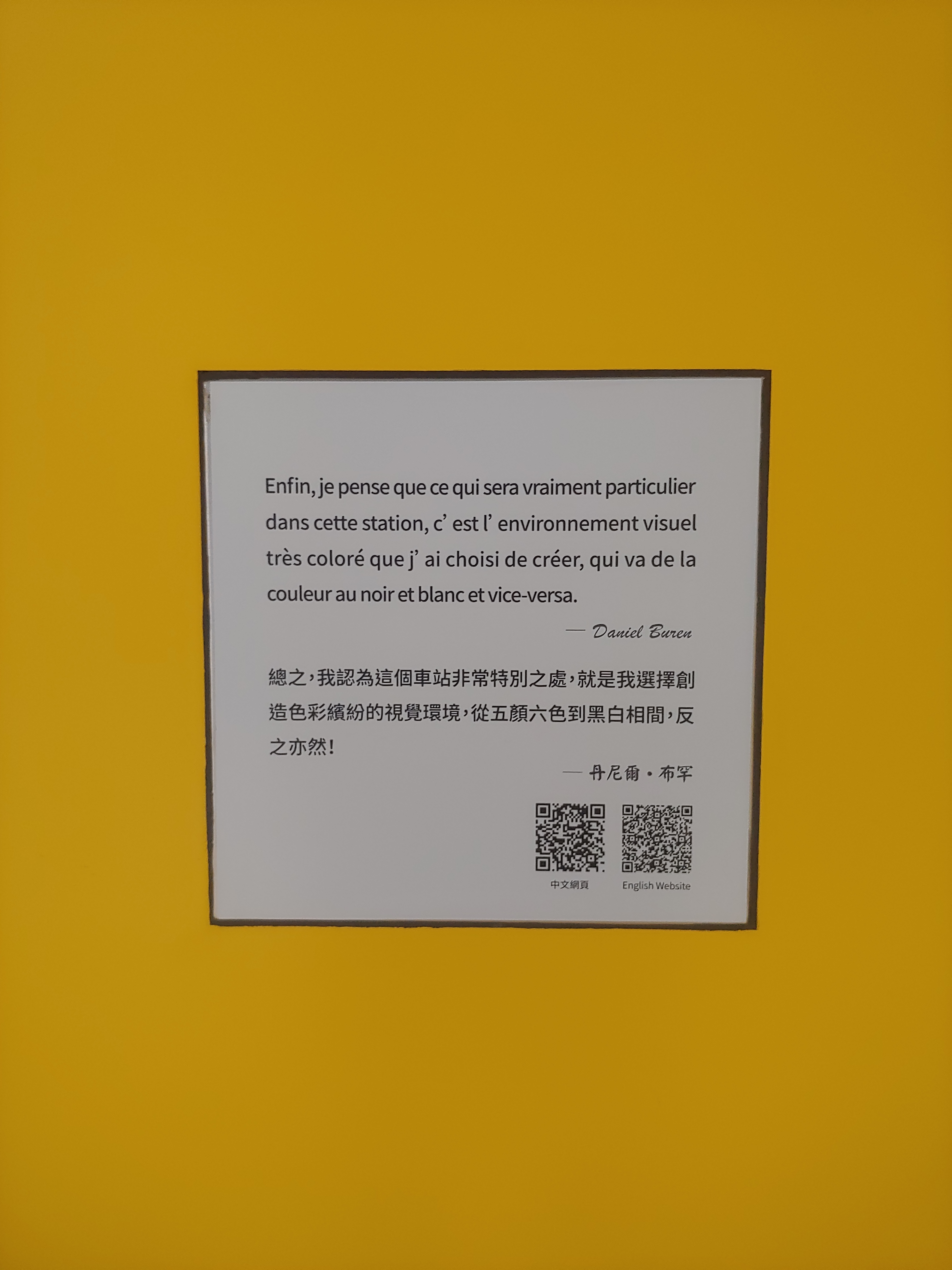 A plate of Daniel Buren's words is installed on a pillar of Banqiao Station, Taipei Metro Circular Line.